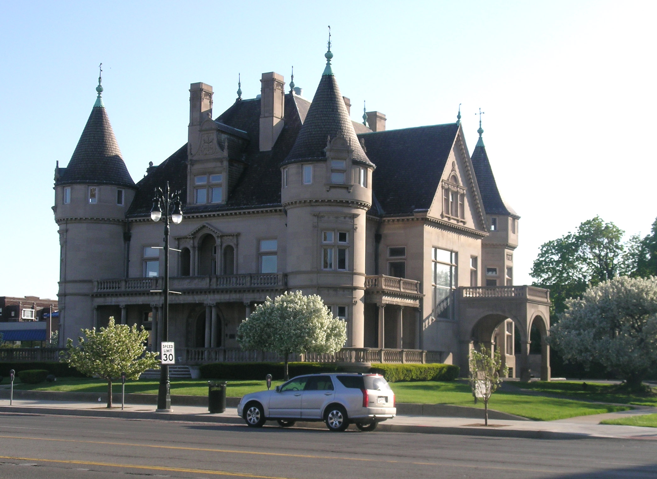 The Col. Frank J. Hecker House in Detroit, Michigan, United States, seen here from across Woodward Avenue, is listed on the US National Register of Historic Places (NRHP).